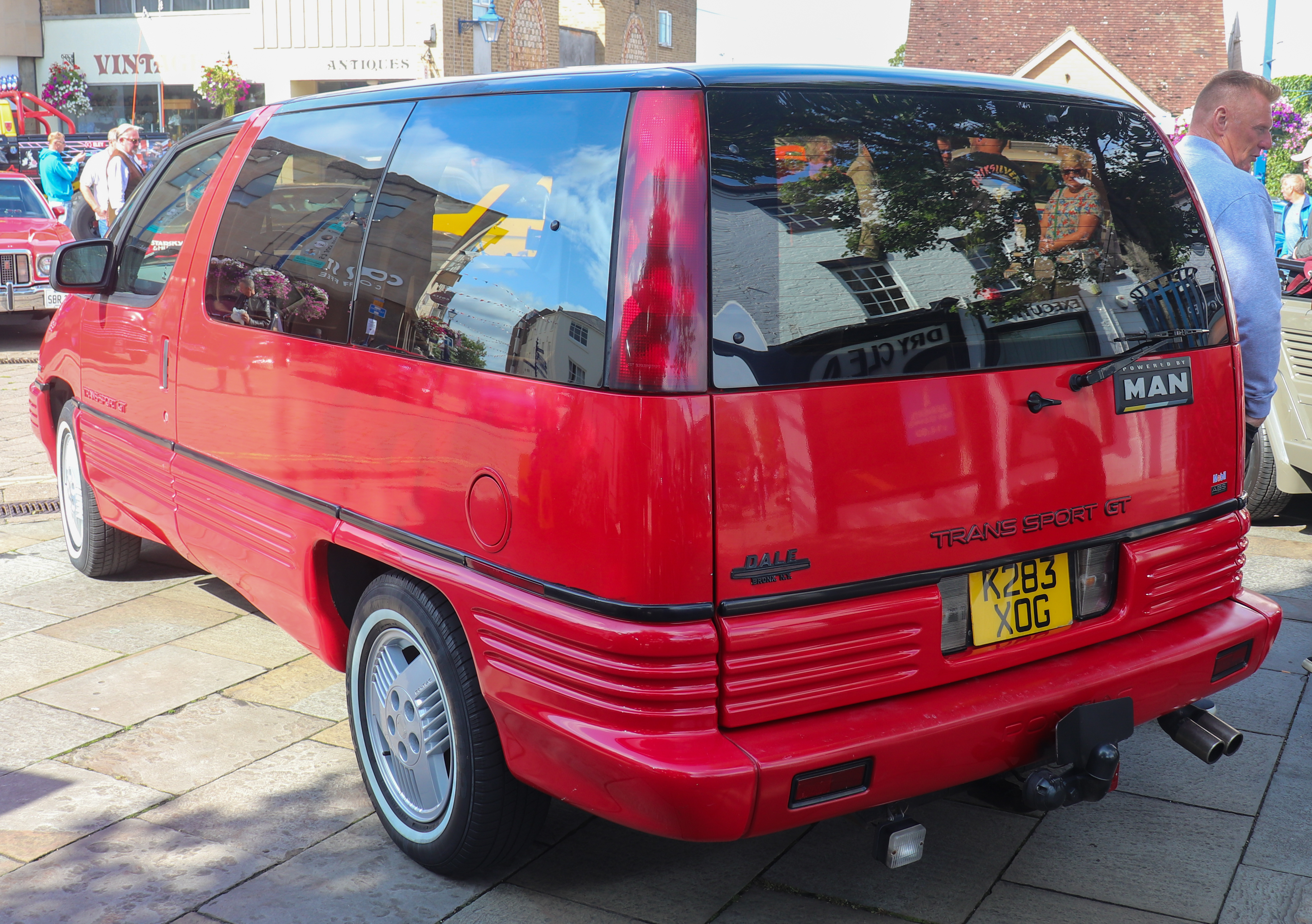 1992 Pontiac Trans Sport GT 3.8 Rear Taken at the 2019 Warwick Classic Car Show